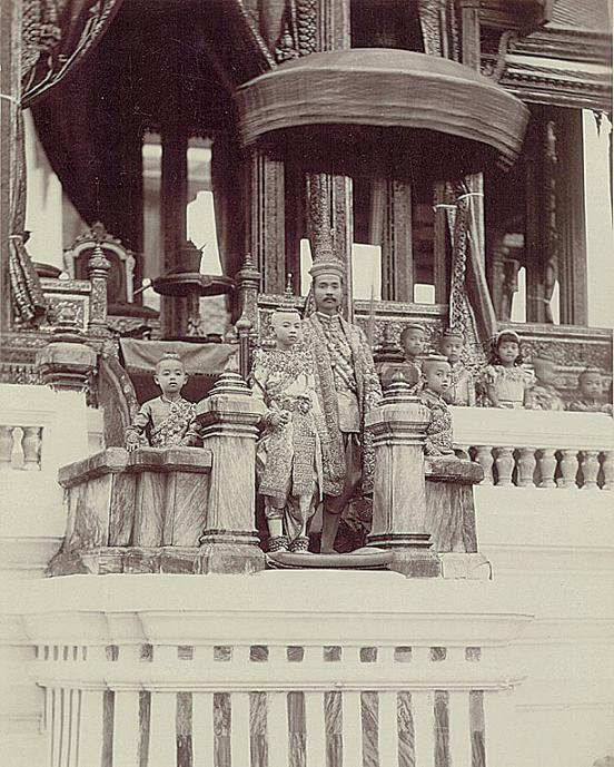 Portrait of Chulalongkorn and his son, Vajirunhit. Both stood on elephant platform at Arpornphimok Prasat, Grand Palace. This photograph was taken in Sokanta Ceremony (the ceremony at which royalty who is turning into teen has his topmost hair cut.)